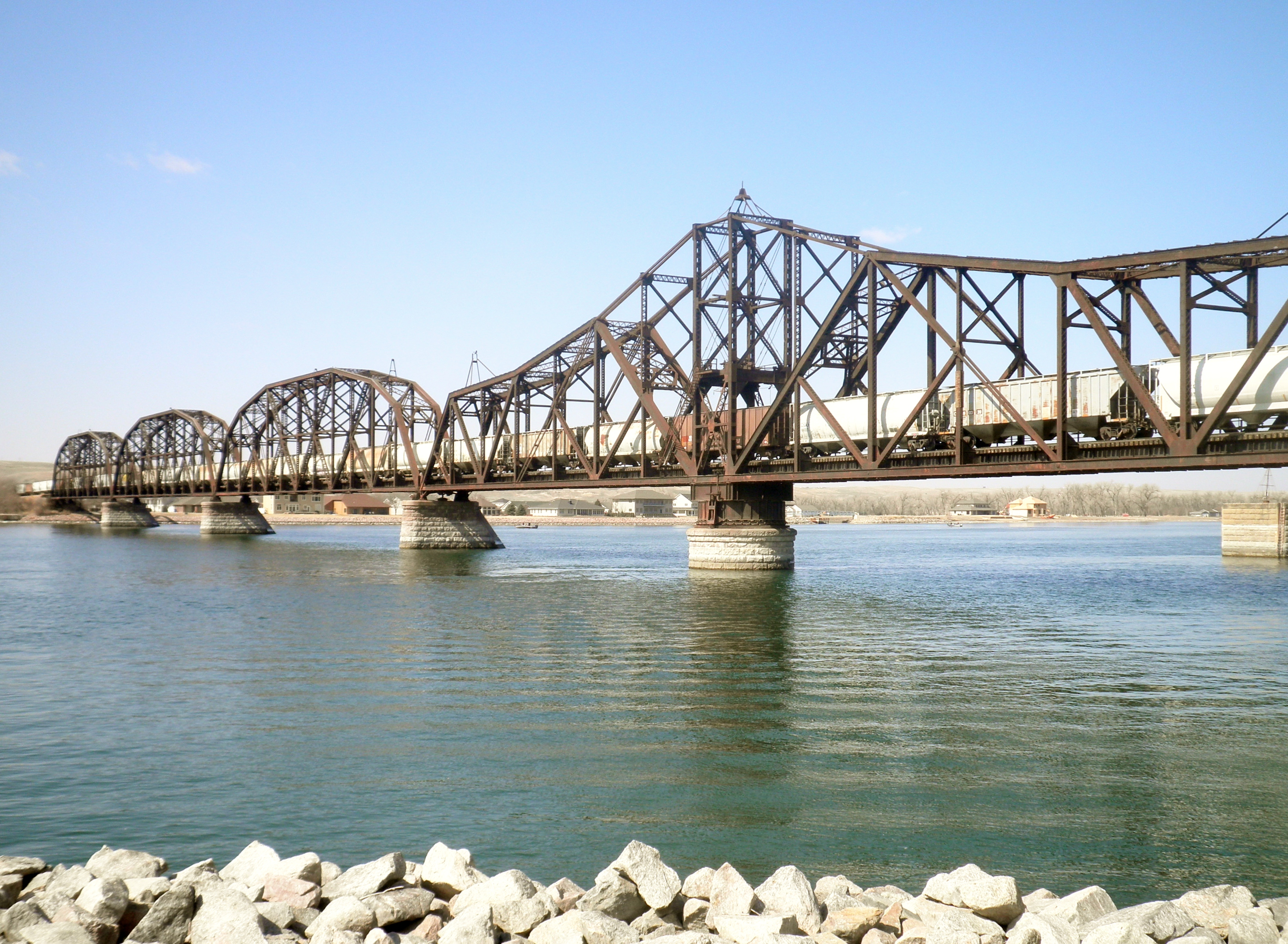 Looking west at Chicago & Northwestern Railroad bridge over the Missouri River at Pierre, South Dakota. Fort Pierre is at the other end.